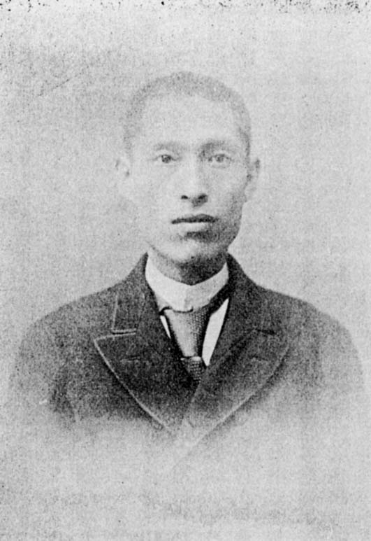 Mr. Goroku Nakamura, professor of the Women's Higher Normal School and superintendent of the Kindergarten attached to the School.